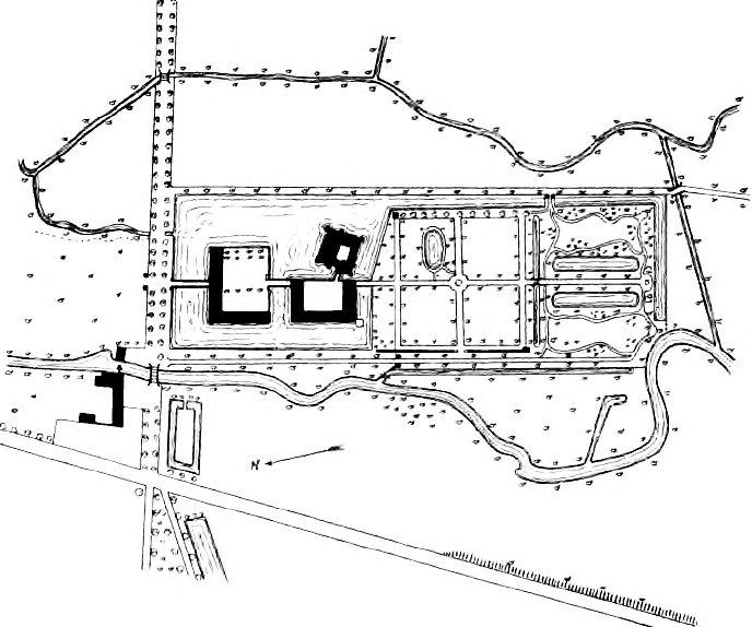 Plan of Trips Castle in Geilenkirchen